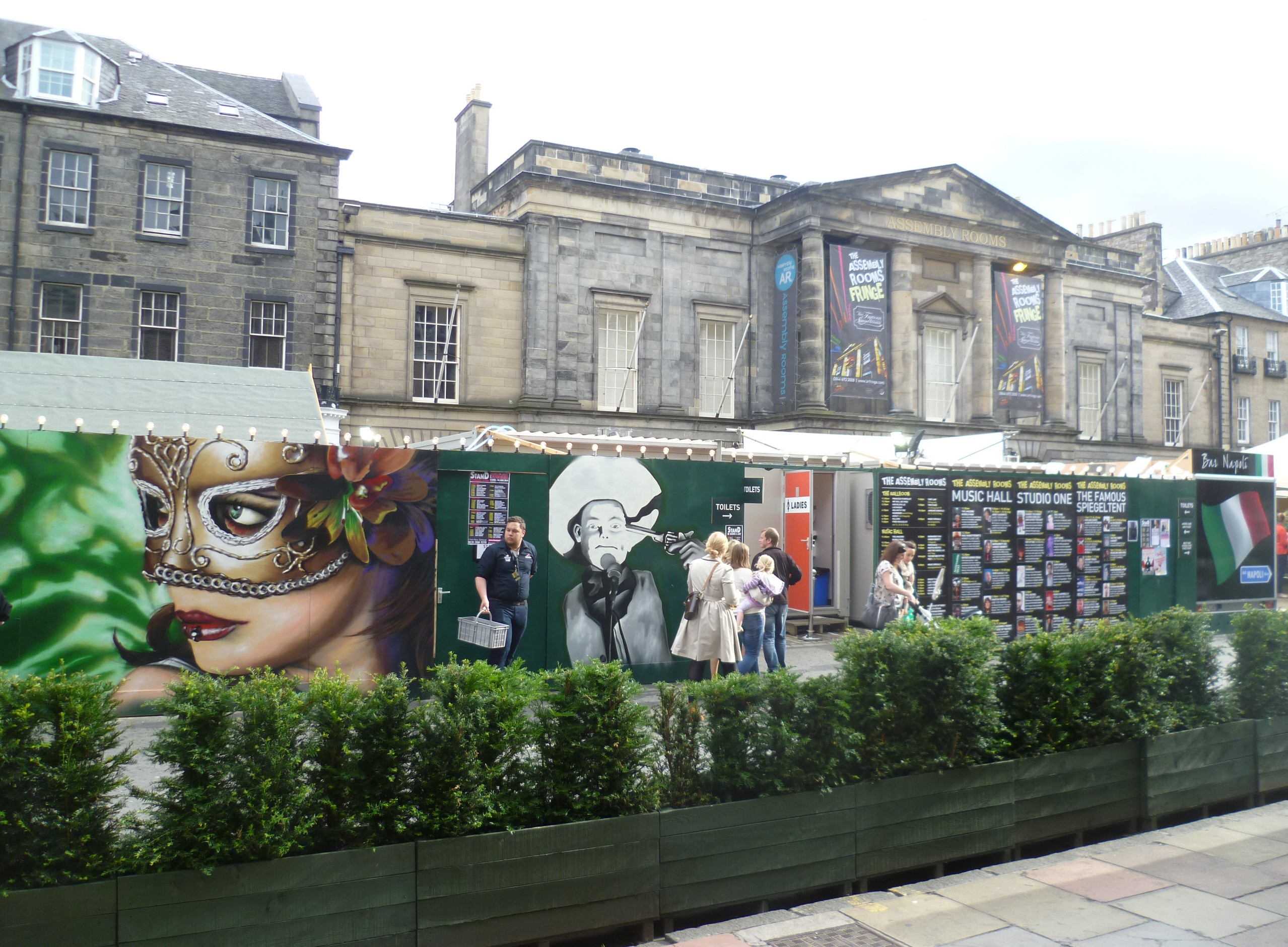 Assembly Rooms and Box Office, George Street 2013